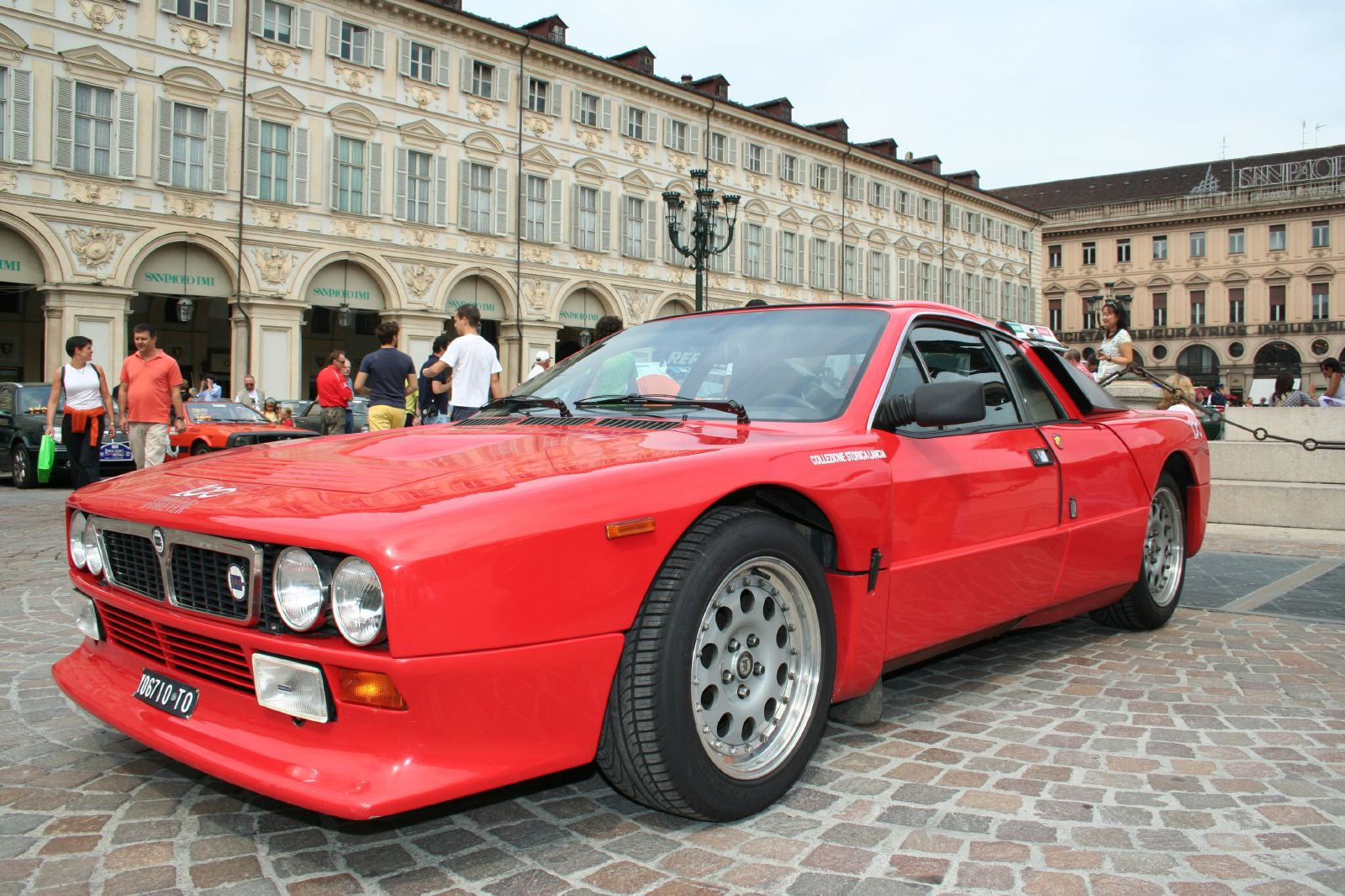 Lancia Rally 037 Stradale at the Lancia centenary celebrations in Turin in 2006.